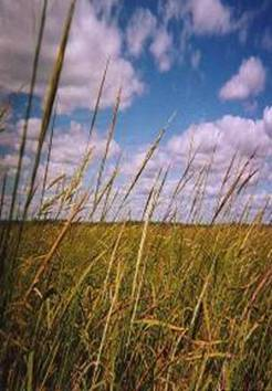 Wild rice in Minnesota